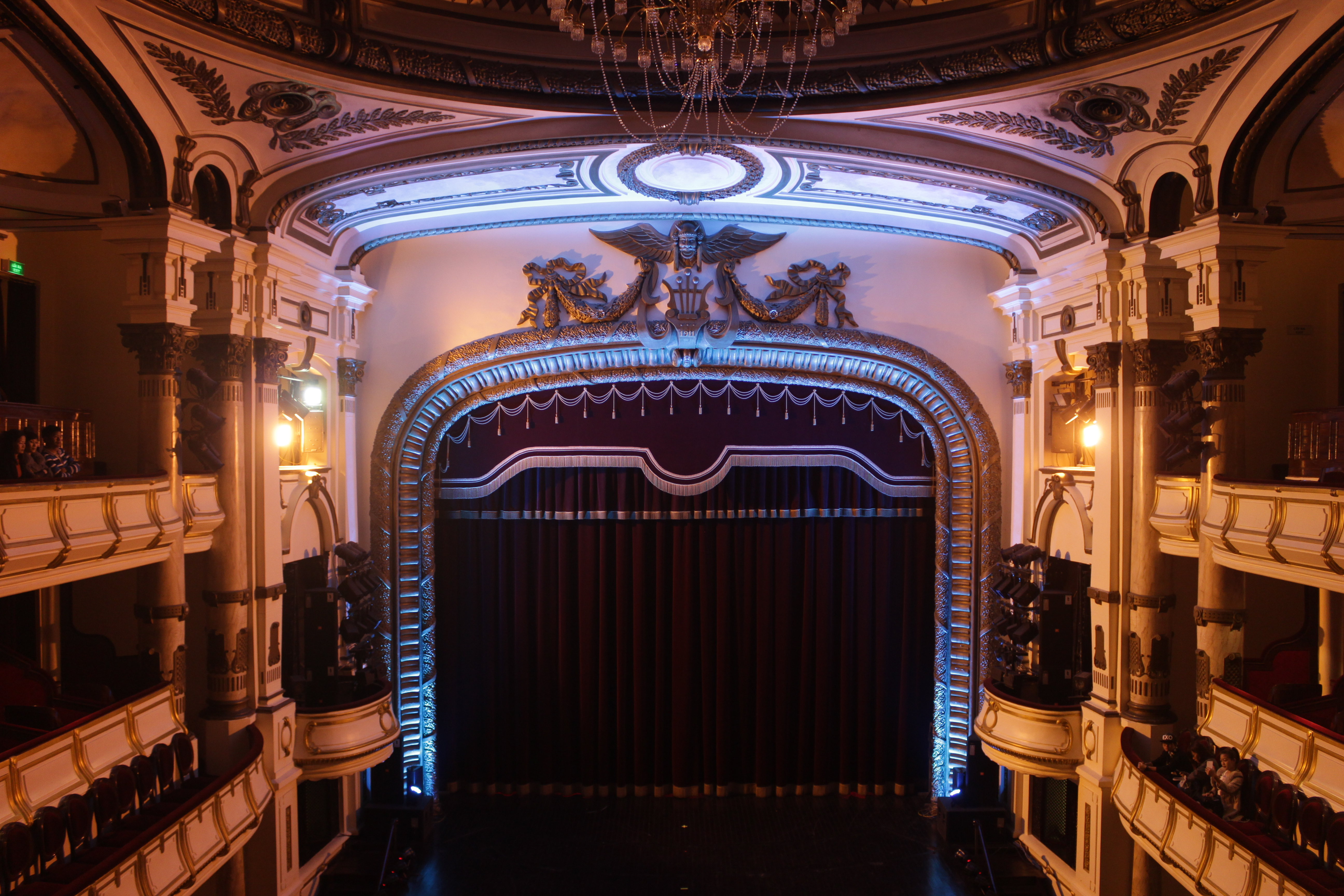 The main stage of Hanoi Opera House.